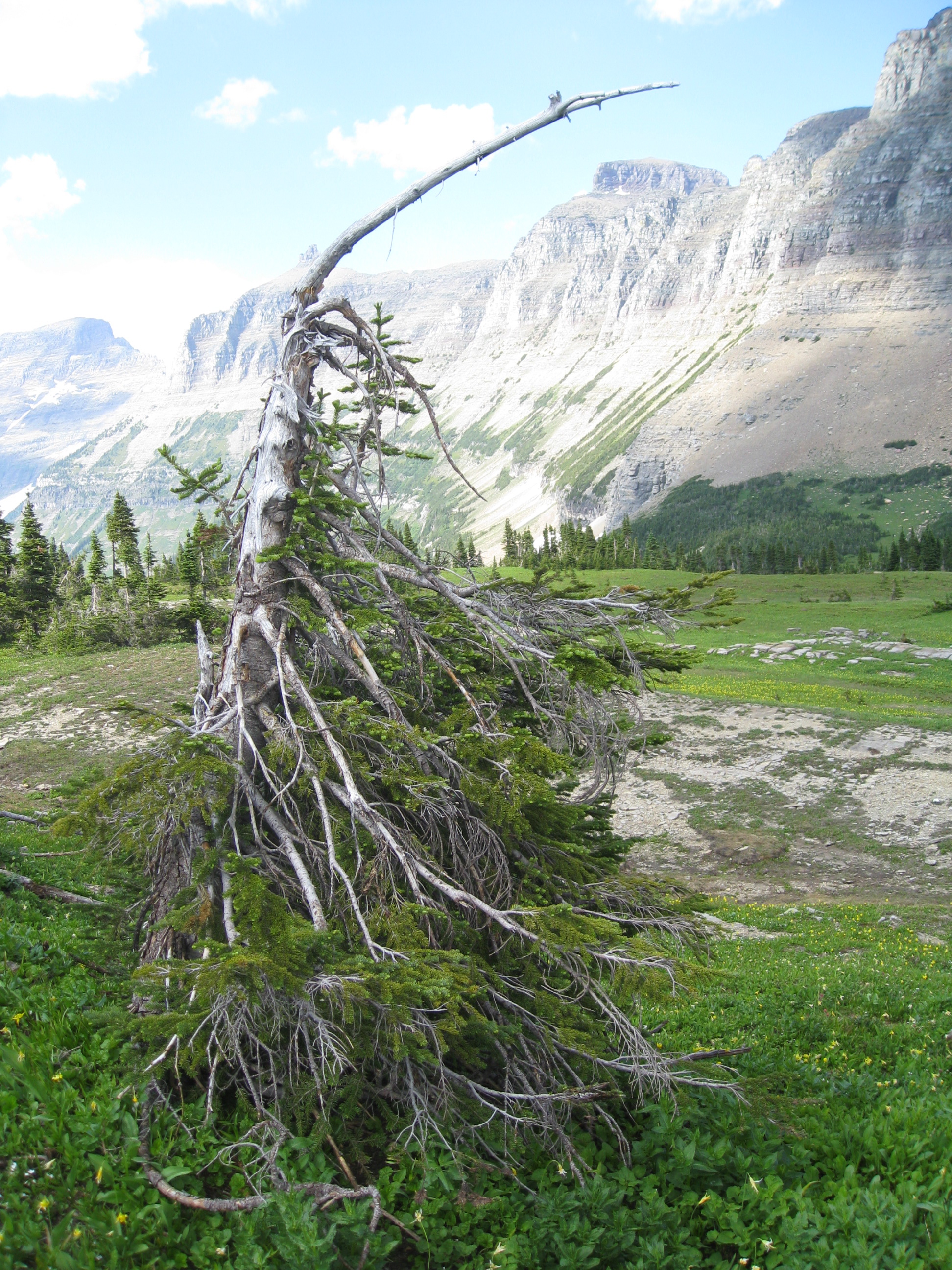 Subalpine fir twisted by wind and weather (Krummholz). Glacier National Park, Montana, US.